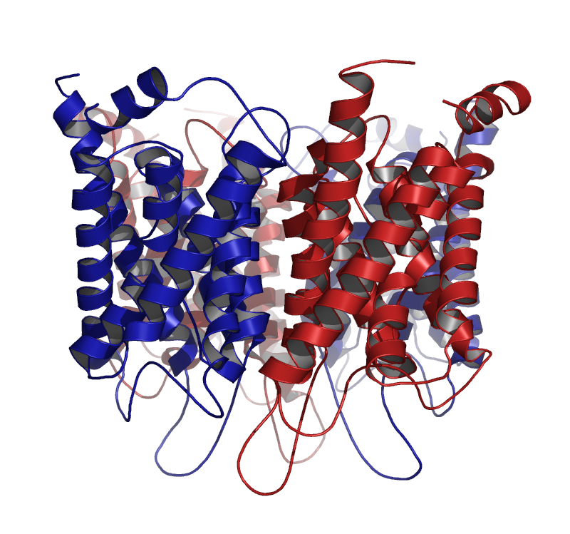 Sideview of Aquaporin 1 Channel, PDB ID, 1J4N generated by PyMOL. Work of User:Vossman.